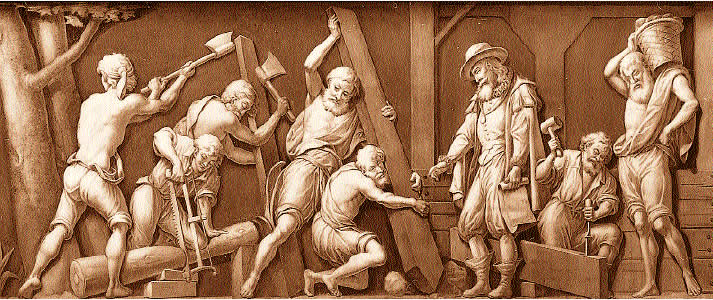 "Colonization of New England" - Early settlers cut and saw trees and use the lumber to construct a building, possibly a warehouse for their supplies. This is the first scene painted entirely by Costaggini.